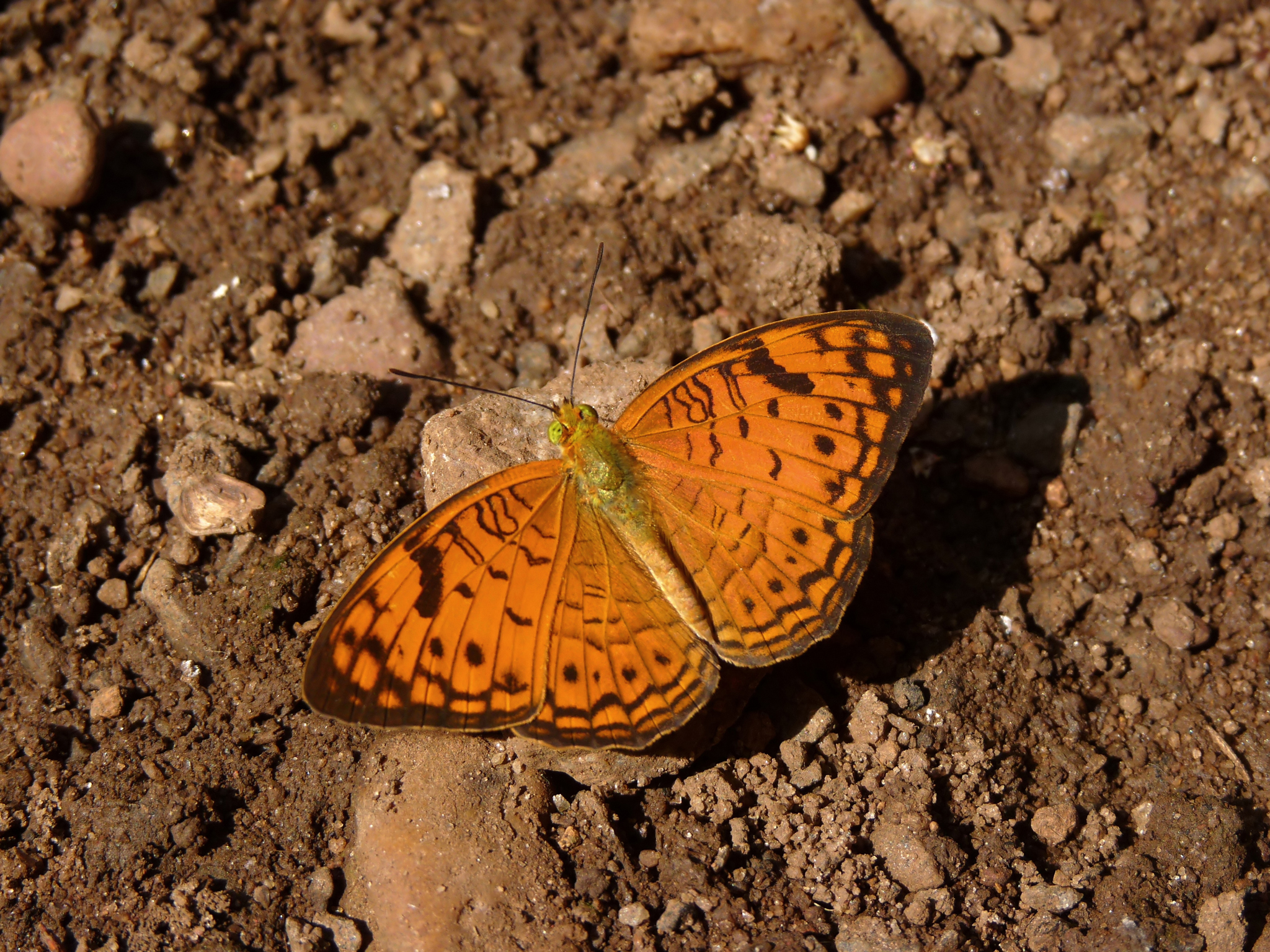 Phalanta alcippe, Small Leopard, is a butterfly of the Nymphalid or Brush-footed Butterfly family found in Asia.